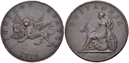 GREECE, United States of the Ionian Islands (British Protectorate). George III. King of Great Britain, 1760-1820. CU 2 Oboli (34mm, 19.01 g, 6h). Royal (London) mint. Dated 1819. Winged lion standing left, head facing, holding arrow-pierced Gospel book and wearing nimbus crown / Britannia seated left on globe, holding olive branch and trident; Union shield to right. Pridmore 18; KM 33. Good VF, dark brown patina, a few marks.